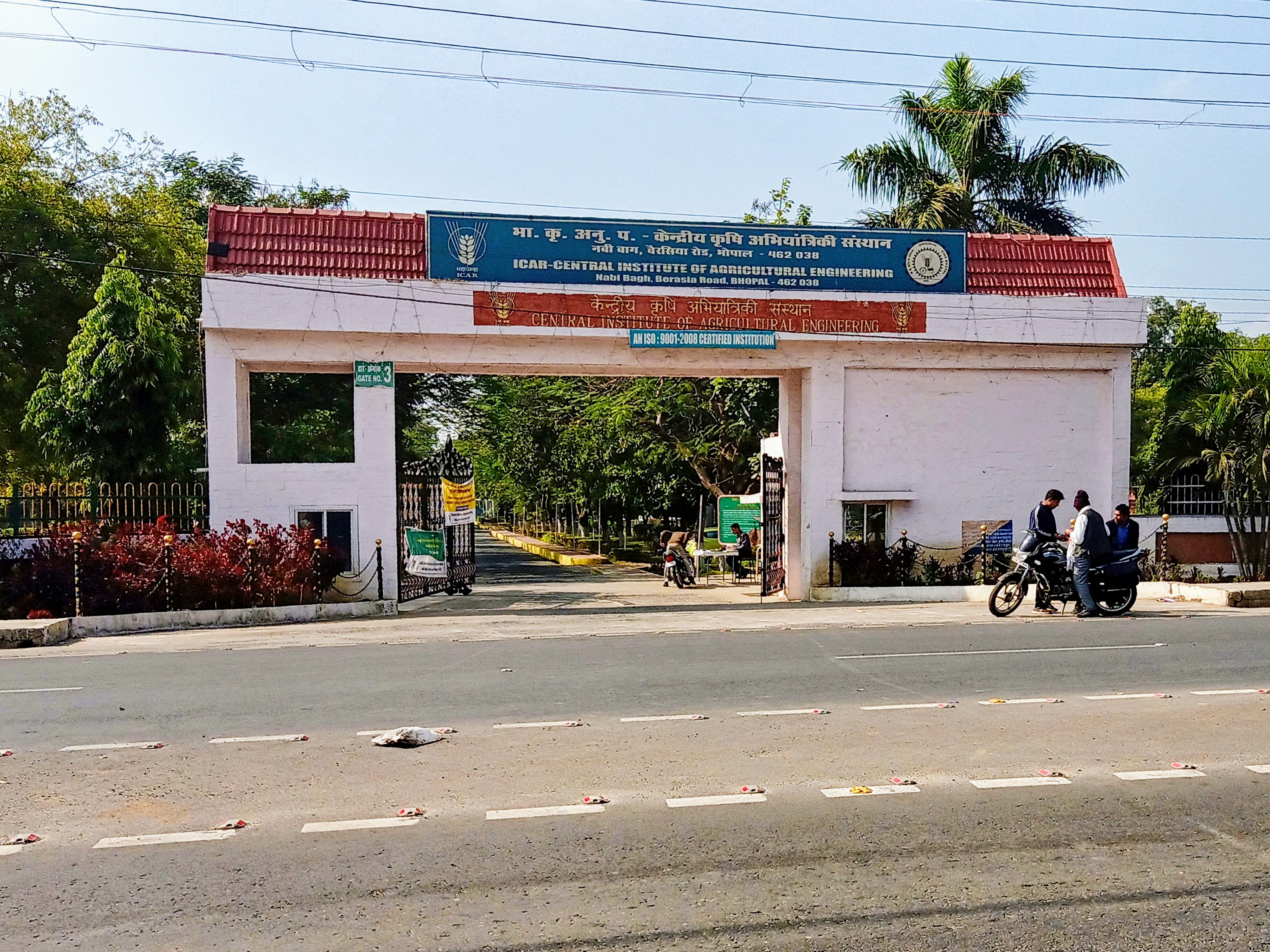 entrance gate of Central Institute of agriculture Nabi Bagh Bhopal